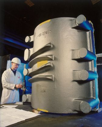 Cable band casting for the Tsing Ma Bridge in Hong Kong undergoing dimensional inspection - a great deal of care had to be paid to the casting method design to keep any distortion during the casting and processing within acceptable limits.